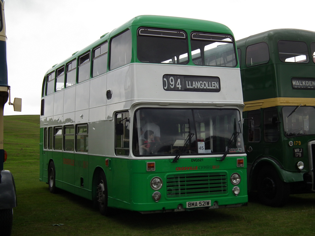 Manchester Trans Lancs Rally